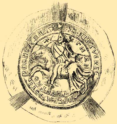 Seal of István Tvartkó (14th century)